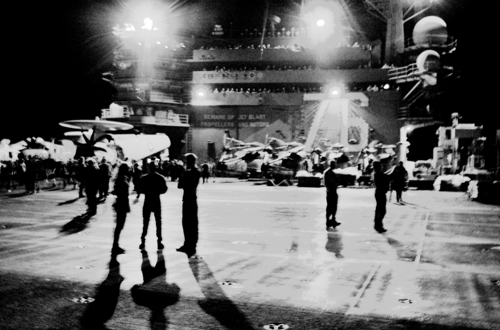 Sailors and their families stand on the flight deck of CVN-76 awaiting a small-arms demonstration during Tiger Cruise 2008.